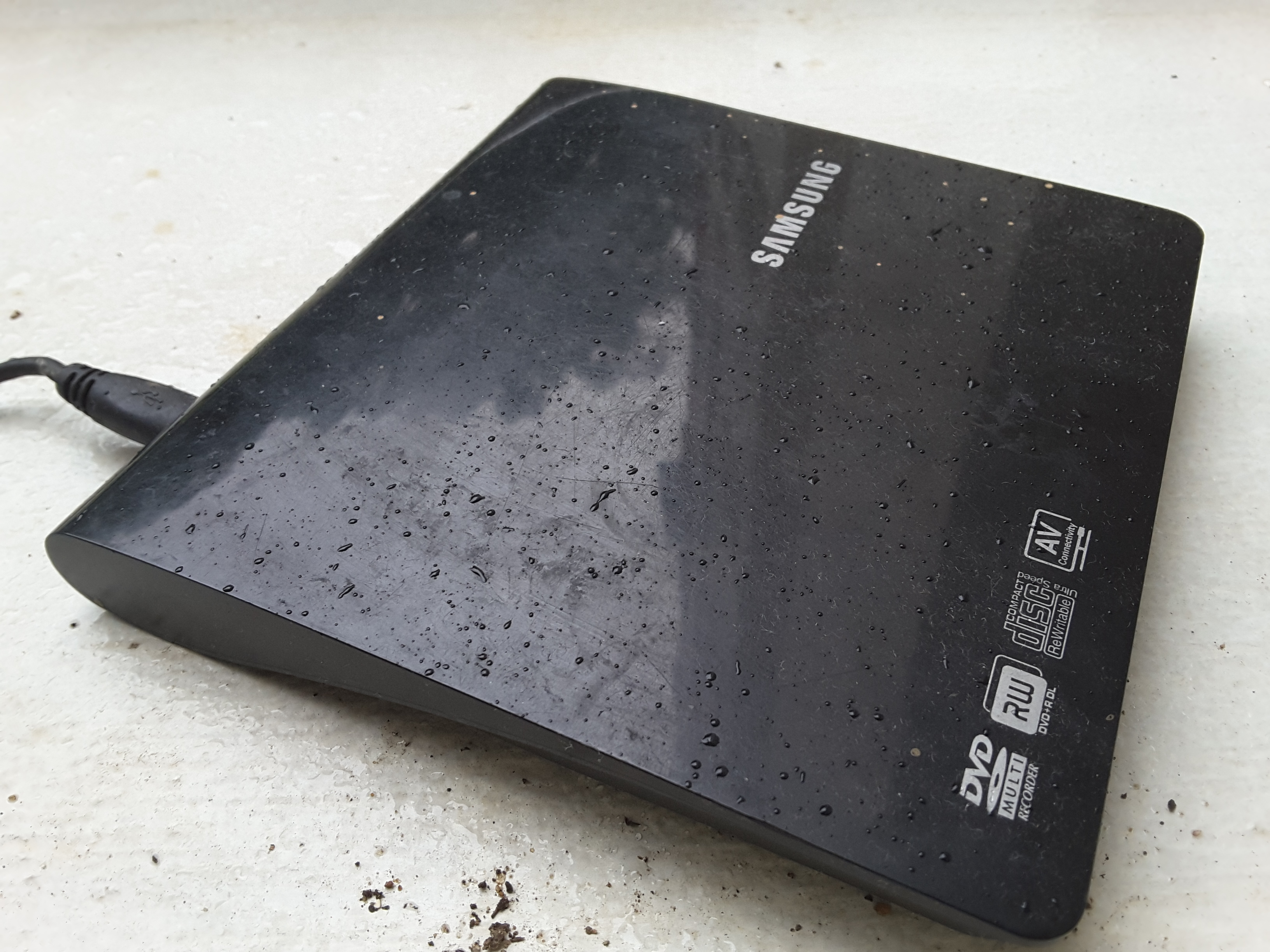 Samsung DVD multi recorder